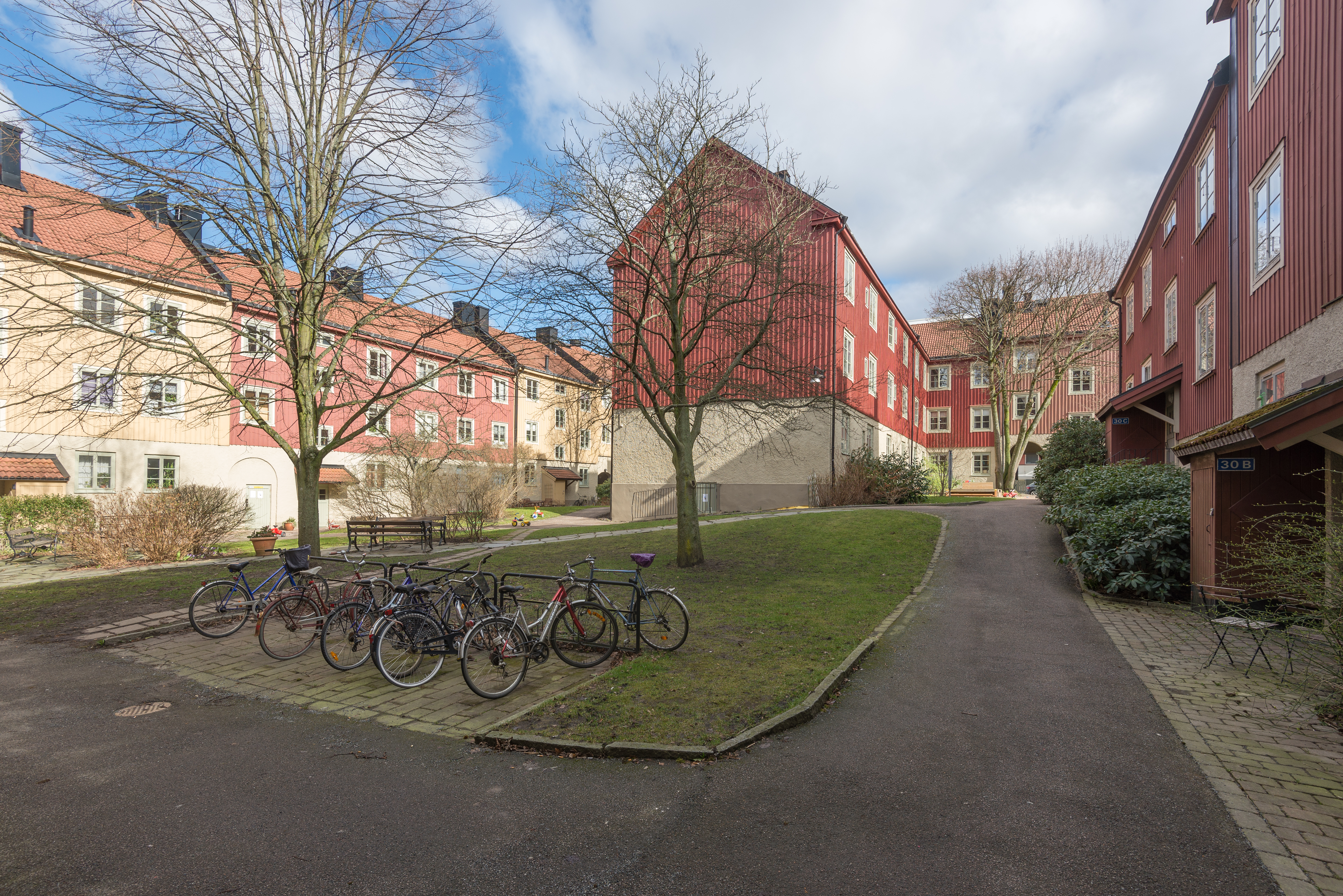 Buildings in city block "Pallas". Majorna, Gotheburg.